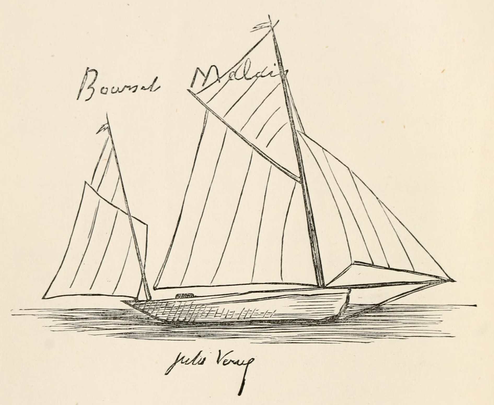 Sketch by Jules Verne of his yacht the Saint-Michel, circa 1873.